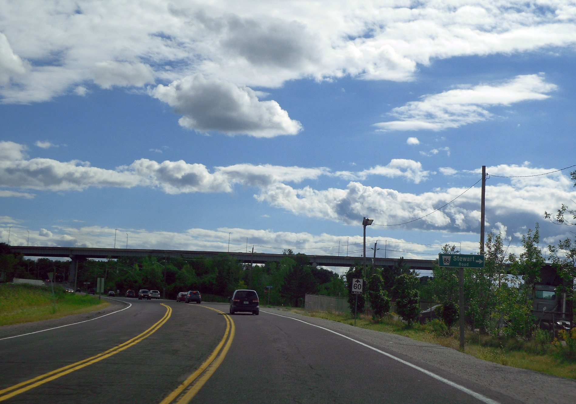 Former Highway 55 (Niagara Stone Road) facing south towards Homer, Ontario. The elevated highway is the Queen Elizabeth Way ascending onto the Garden City Skyway.